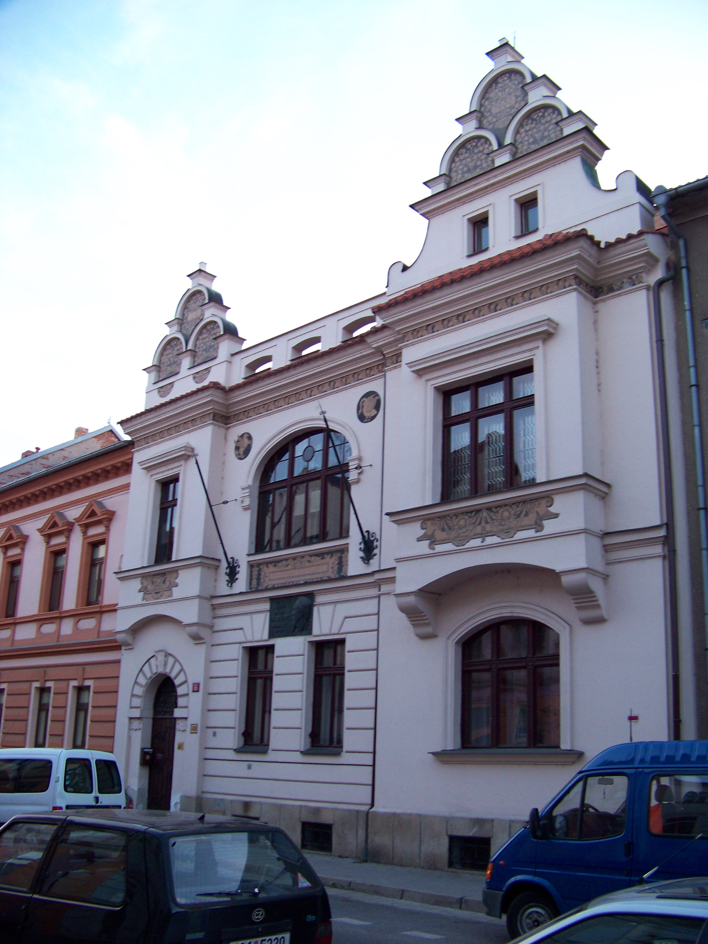 Písek-Budějovické Předměstí, Písek District, South Bohemian Region, the Czech Republic. Tyršova 438/30, Adolf Heyduk memorial.